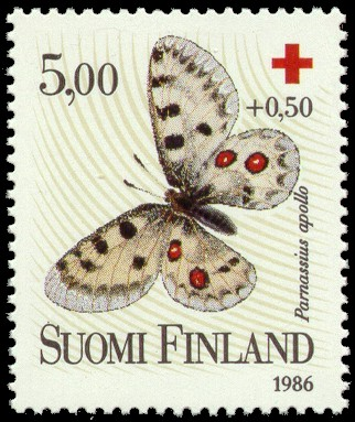 Postage stamp depicting the Parnassius apollo butterfly